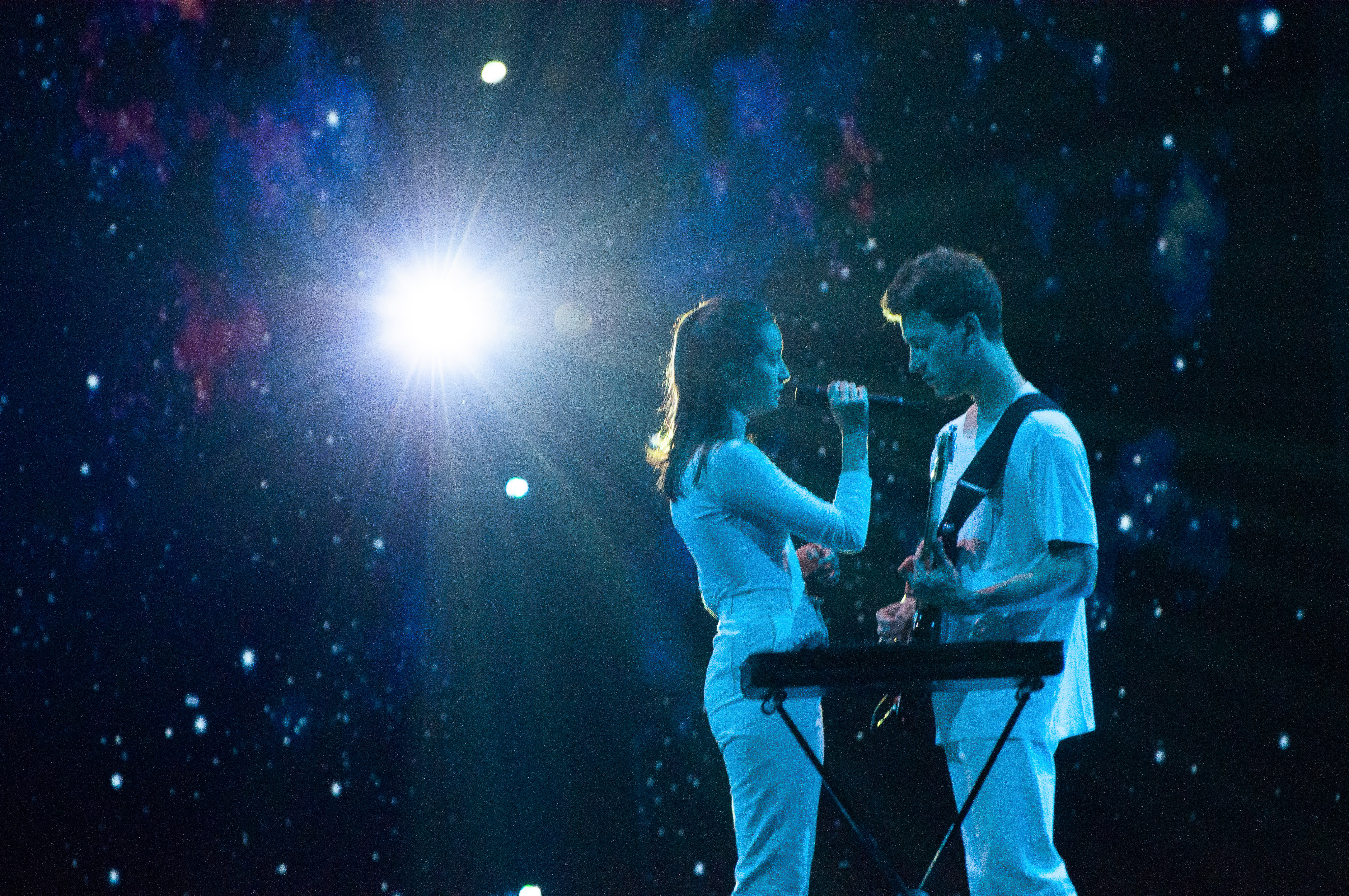 Zala Kralj & Gašper Šantl at the 2019 Eurovision Song Contest Grand Final Dress Rehearsal